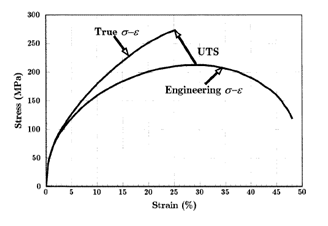 Contrast between engineering stress-strain curve and true stress-strain curve